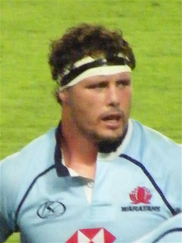 Australian rugby union player Al Baxter